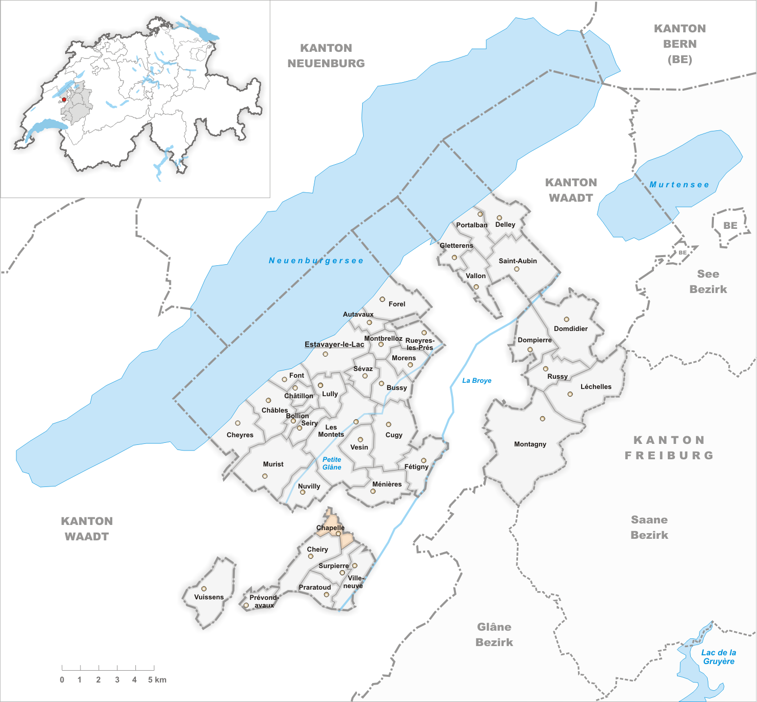 Municipality Chapelle Artist: Tschubby